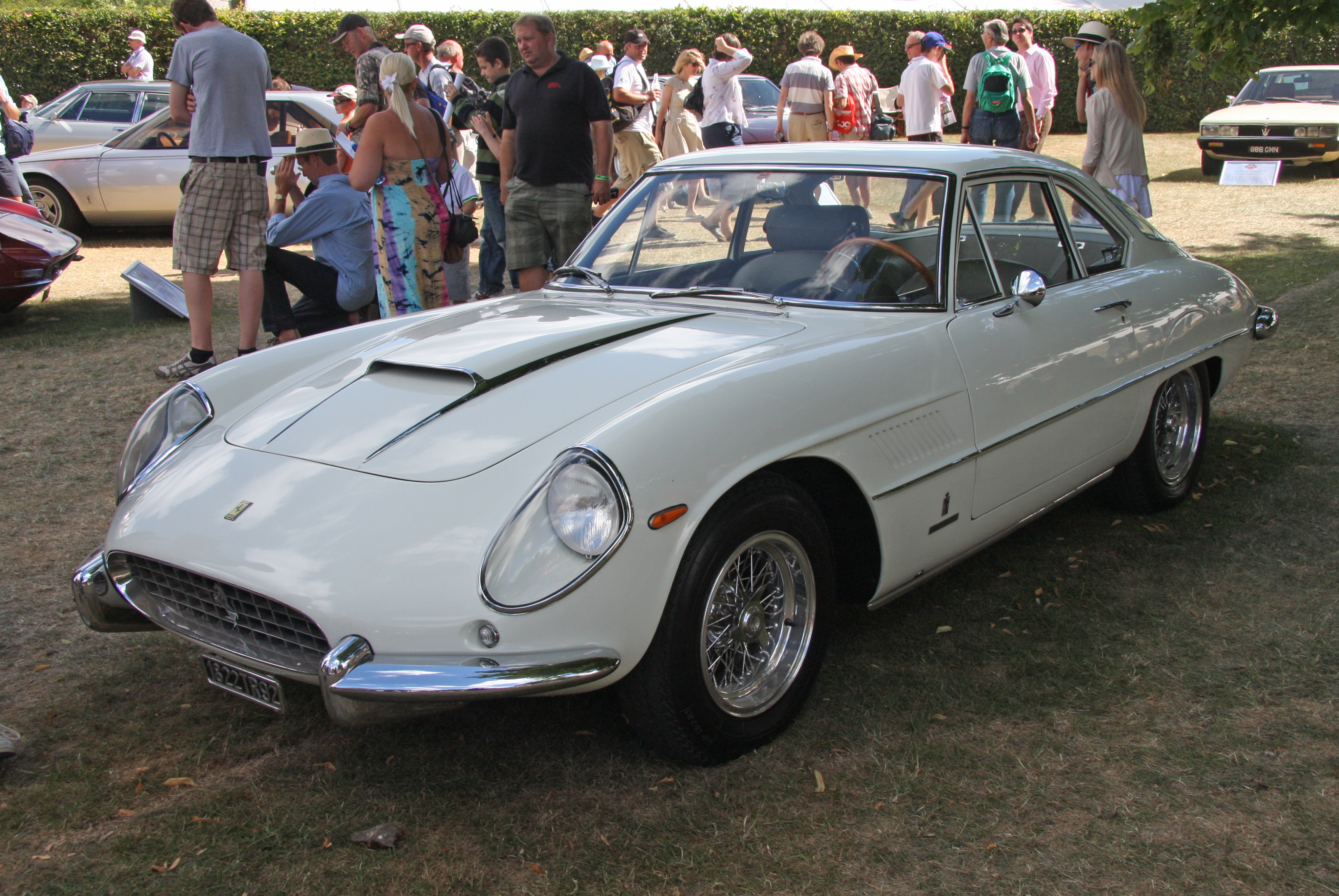 1962 Ferrari 400 Superamerica Aerodinamico. This is a Series I, s/n #3221SA, which was at the 1961 Paris Autoshow, and later owned in Germany and Switzerland and then USA, in 2015 sold in Scottsdale, Arizona for for 4 million USD.[1]